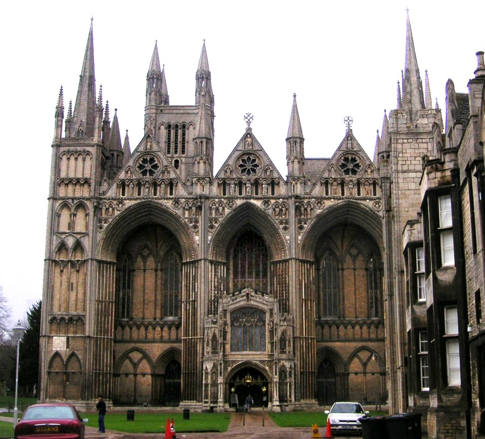 Peterborough Cathedral, England. The "Early English Gothic" facade. 1193-1230 Note: This image has been digitally modified to bring out details, because it was a rainy day with poor visibility.